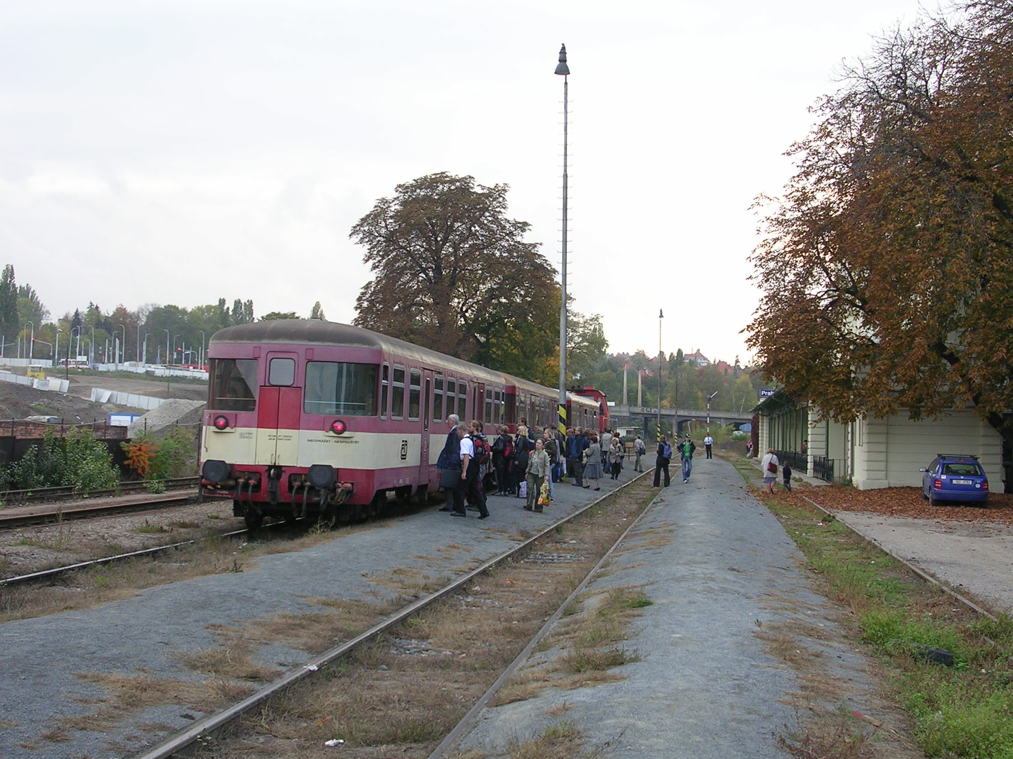 Dejvice, Prague, the Czech Republic. Train at station Praha-Dejvice.